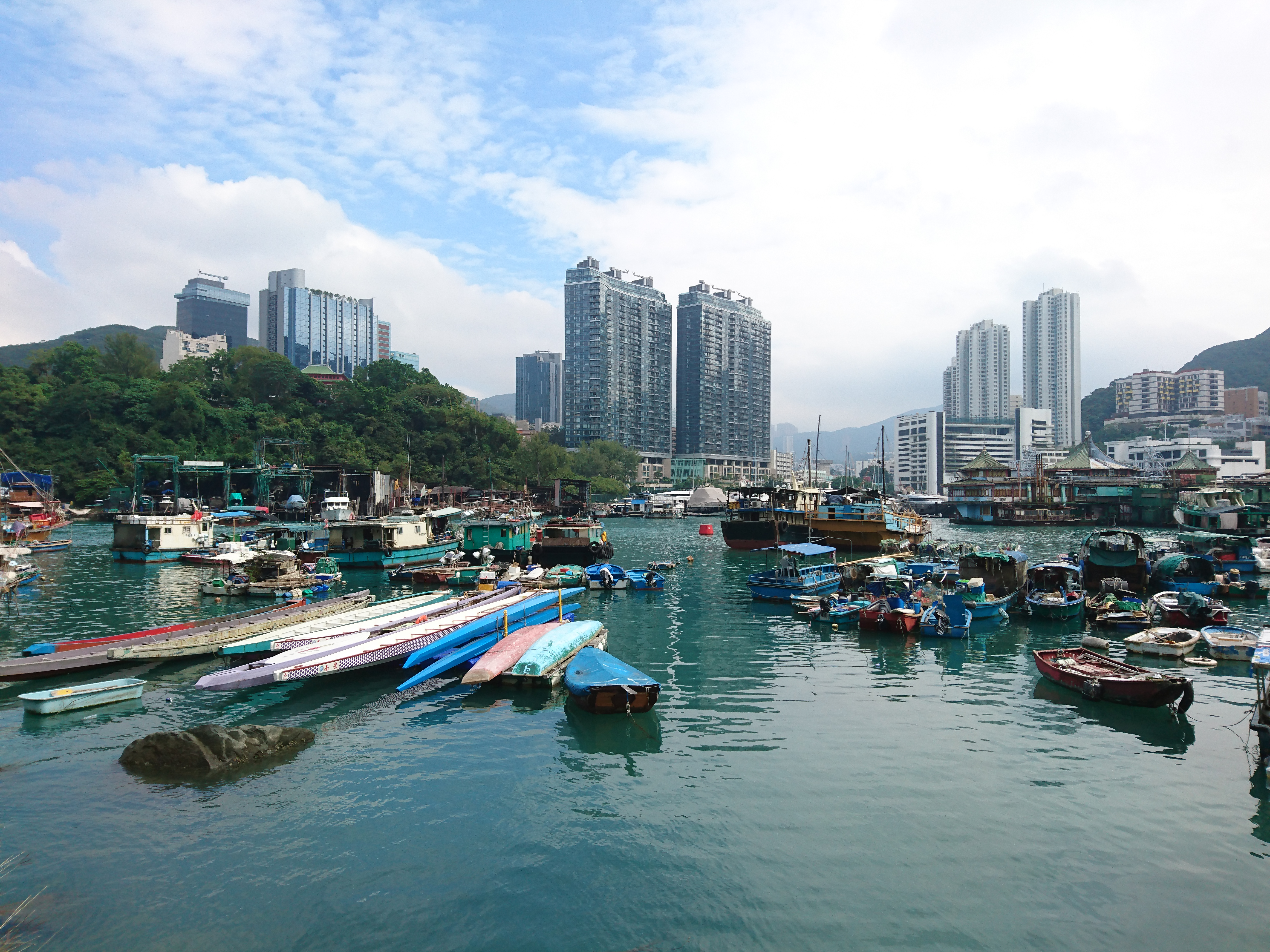 Aberdeen Typhoon Shelter near Sham Wan